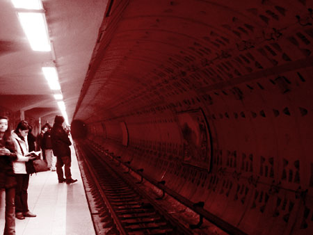 Bucharest Metro: Dristor Station